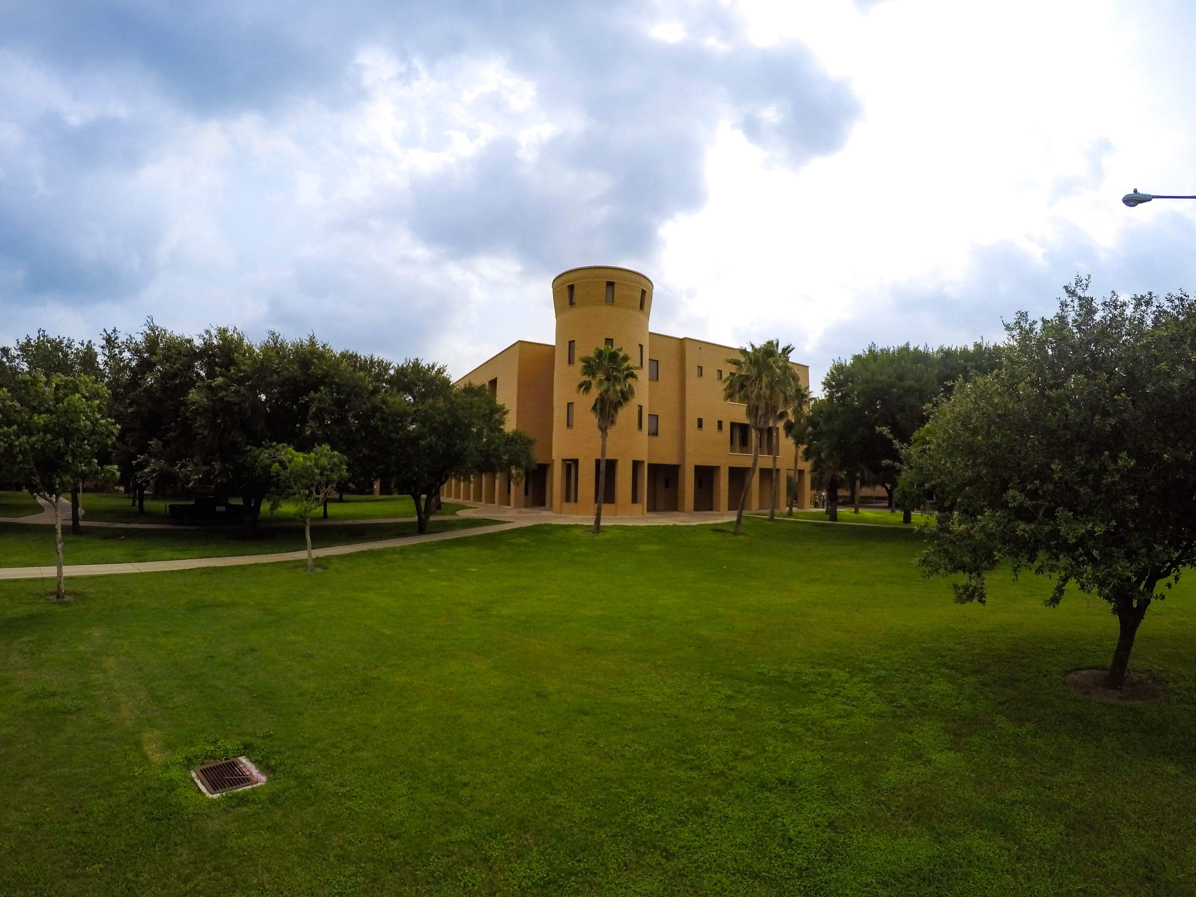 Picture of the UTRGV Library, Edinburg Campus